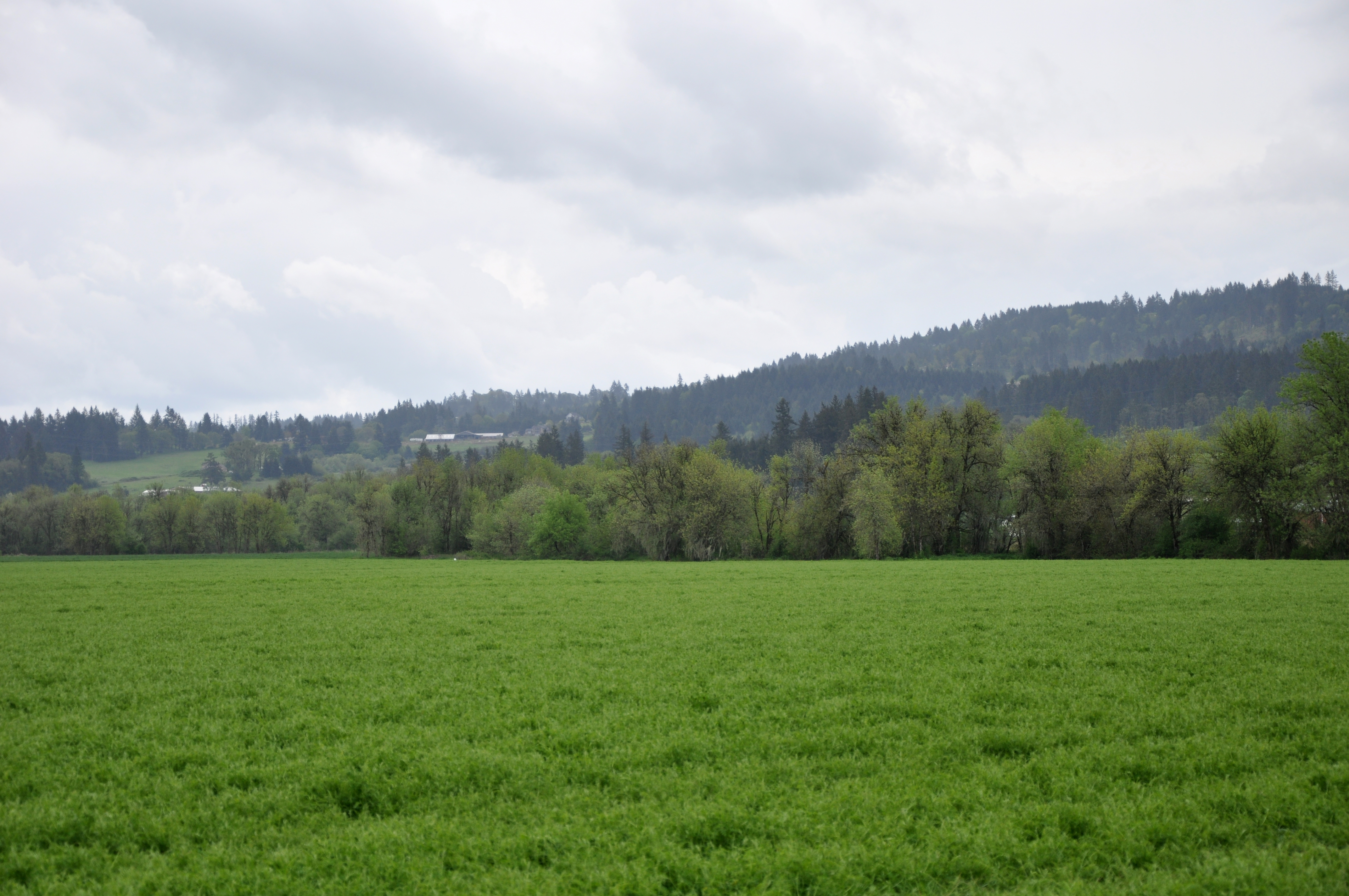 Chehalem Creek flows through farm fields in the Chehalem Valley northwest of Newberg in the U.S. state of Oregon. The row of trees along the edge of the field in the foreground flanks the creek. The view is to the southeast along Ribbon Ridge Road.